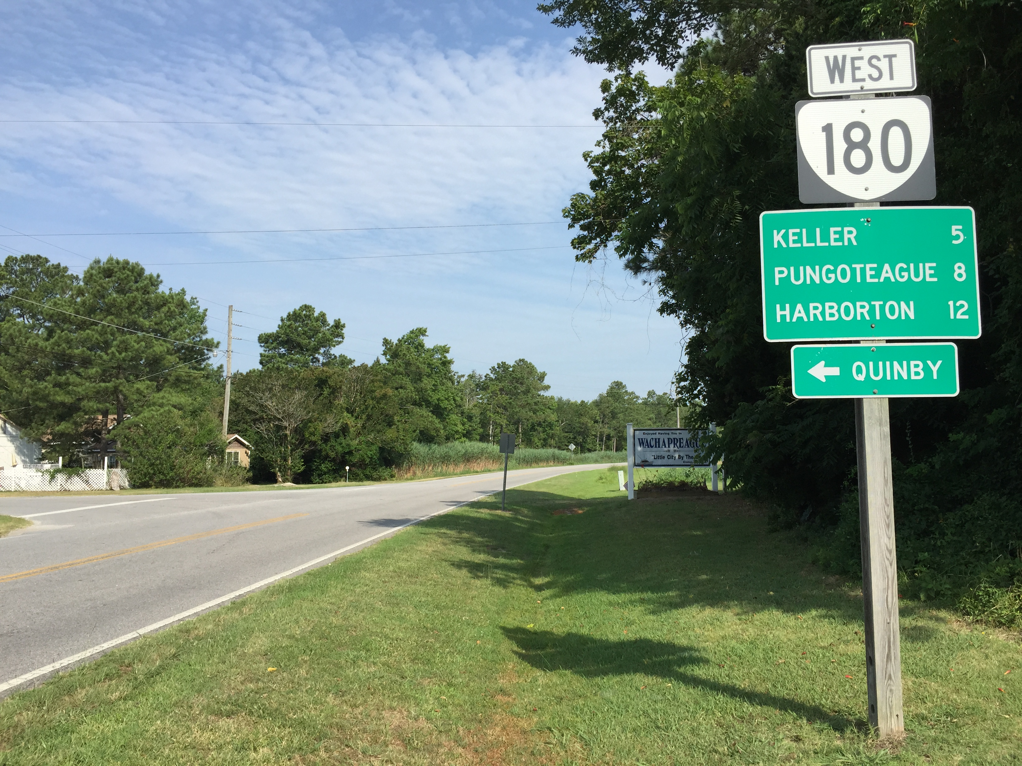 View west along Virginia State Route 180 (Wachapreague Road) at Bradfords Neck Road (Virginia State Secondary Route 605) in Wachapreague, Accomack County, Virginia